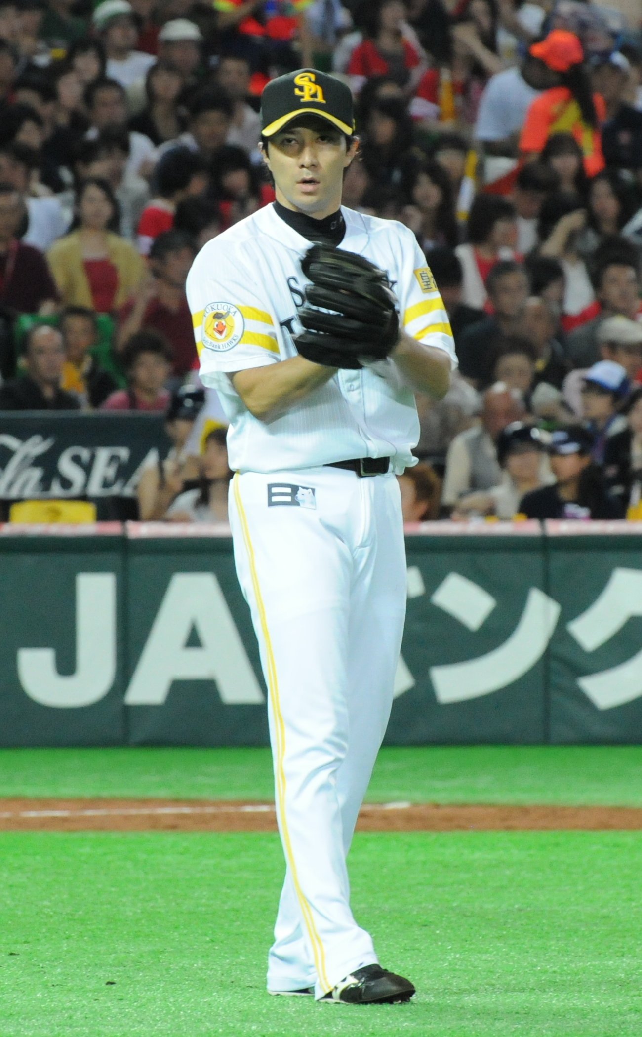 Takahiro Mahara, pitcher of the Fukuoka SoftBank Hawks, at Fukuoka Dome.